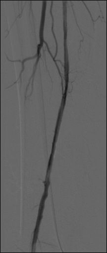 from an XA image sequence